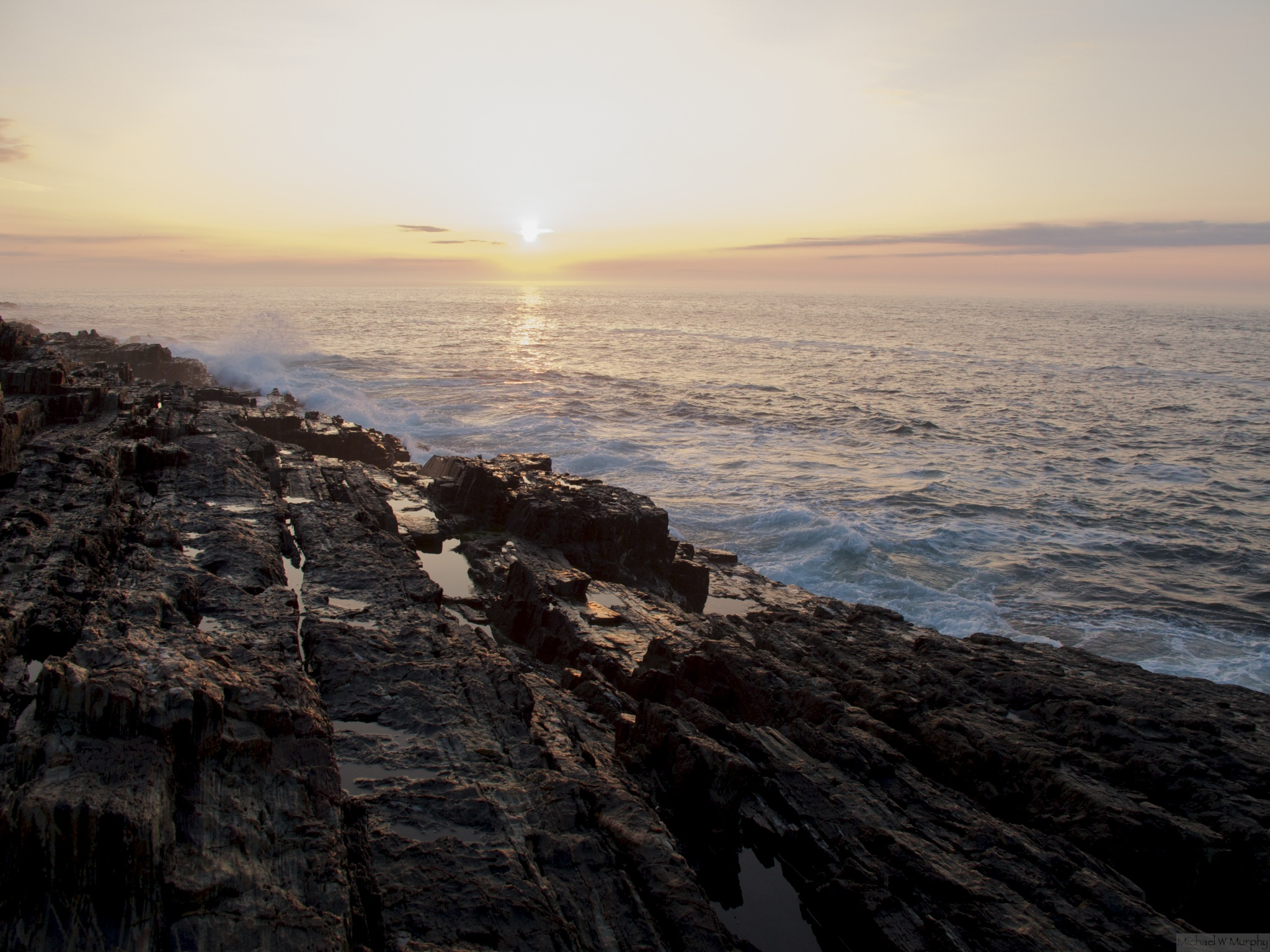 Cape Neddick Sunrise